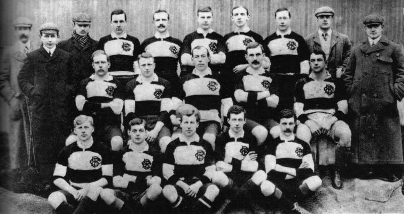 Barbarian FC team photo from their match against Devonport Albion 5th April 1904.Standing (L-R):E.de Lissa, C.G.Robson, R.S.Wix, A.Brown, A.R.Thompson, E.M.Harrison, N.W.Godfrey, F.H.Palmer, G.Fraser, T.A.Gibson. Seated: E.C.Galloway, F.M.Stout, B.C.Hartley (Captain), W.L.Y.Rogers, D.R.Bedell-Sivright . On Ground: G.V.Kyrke, F.C.Hulme, S.F.Cropper, P.Hutchison, E. Watkins-Baker.